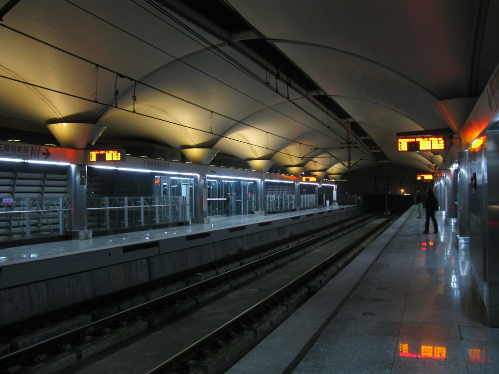 Line 6 Platform of South Waigaoqiao Free Trade Zone Station, Shanghai Metro